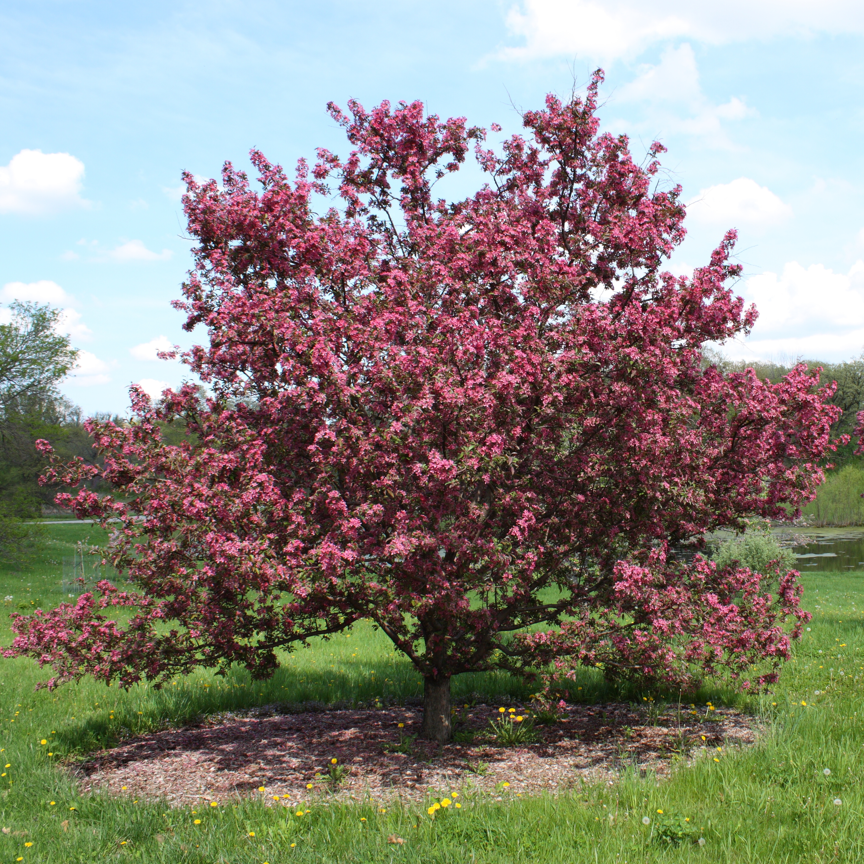 Purple Prince Crabapple, Malus 'Purple Prince', Morton Arboretum acc. 49-93*1